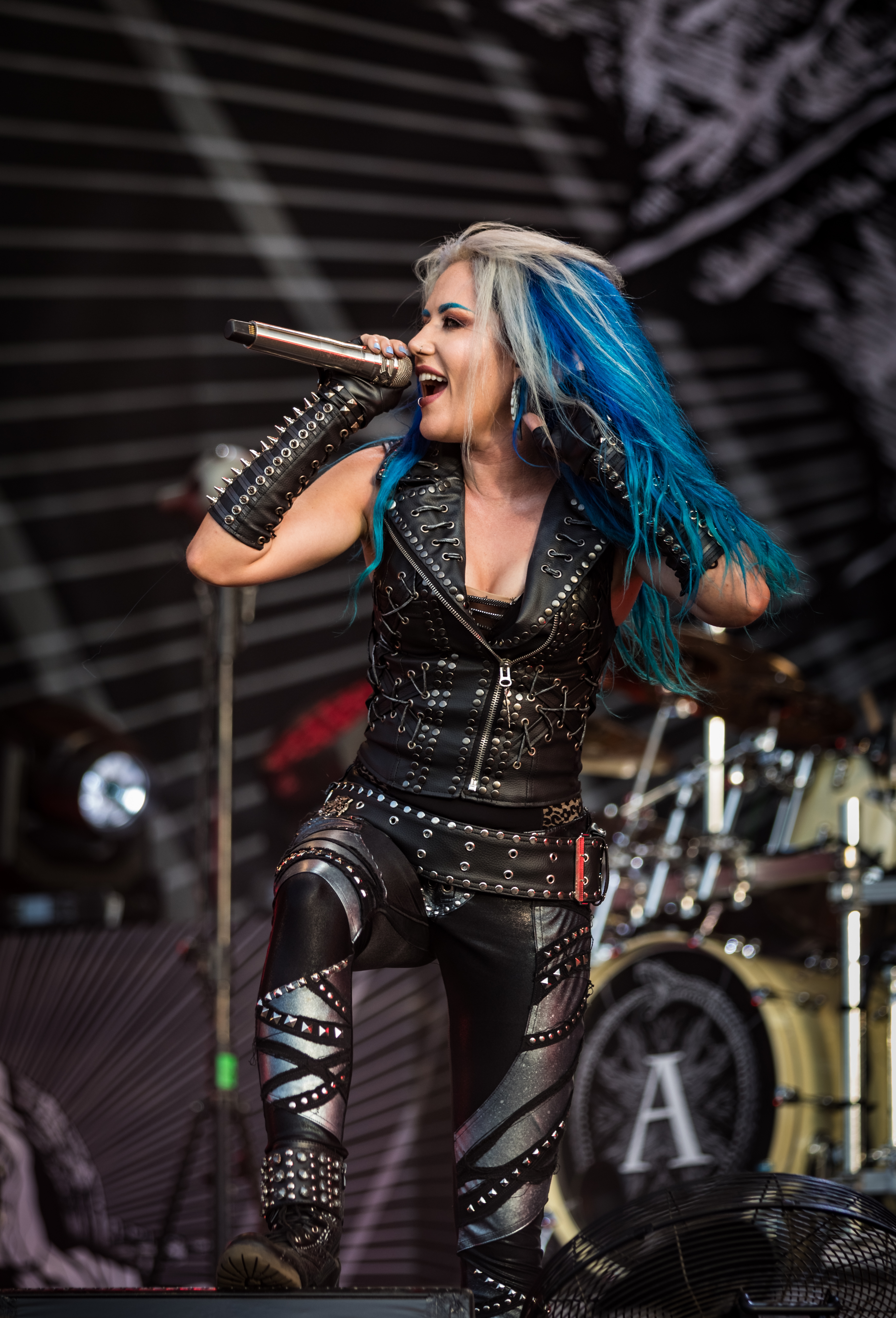 Arch Enemy - Wacken Open Air 2018